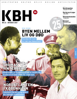 Frontpage of KBH number 25